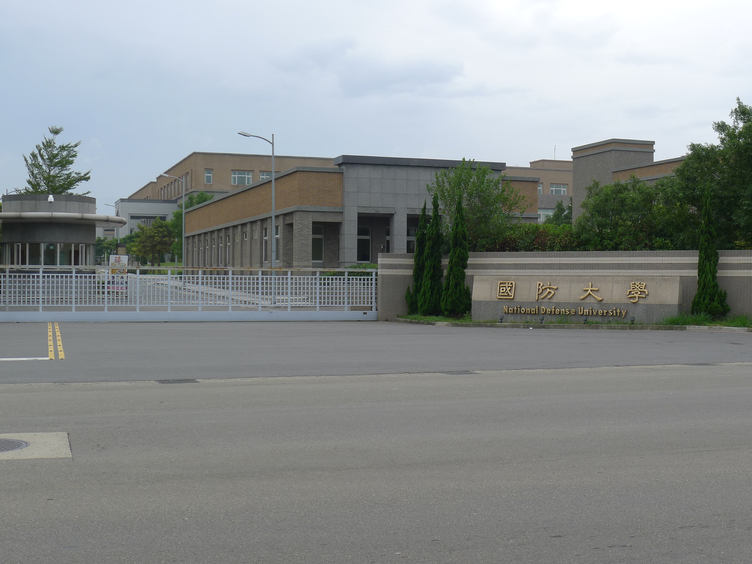 The view of R.O.C National Defense University at north side gate, and located on Shingfeng Road, Bade City, Taoyuan County, Taiwan.中文（中国大陆）: 中华民国国防大学北侧门位于台湾兴丰路。